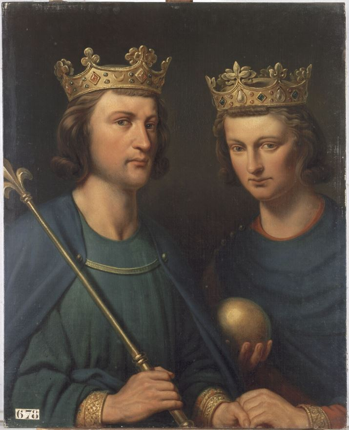 Portraits of Kings of France is a serie of portraits commissioned between 1837 and 1838 by Louis Philippe I and painted by various artists for the Musée historique de Versailles.